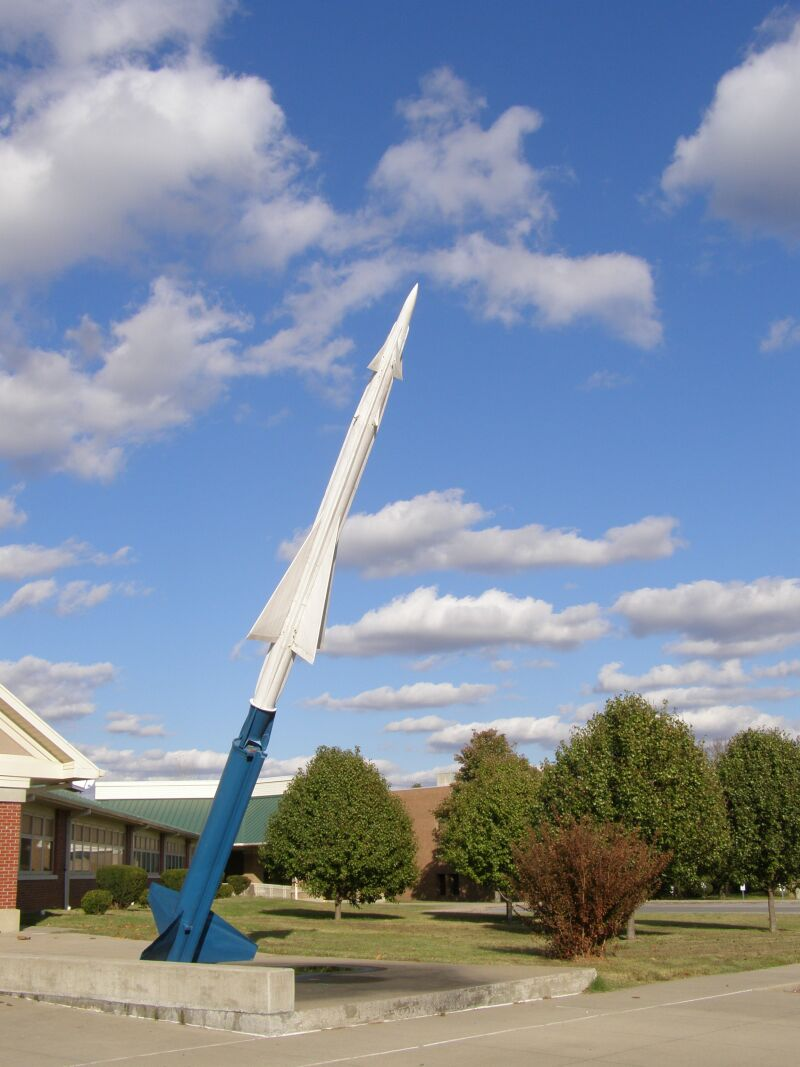 Nike Ajax in front of local school on US 60